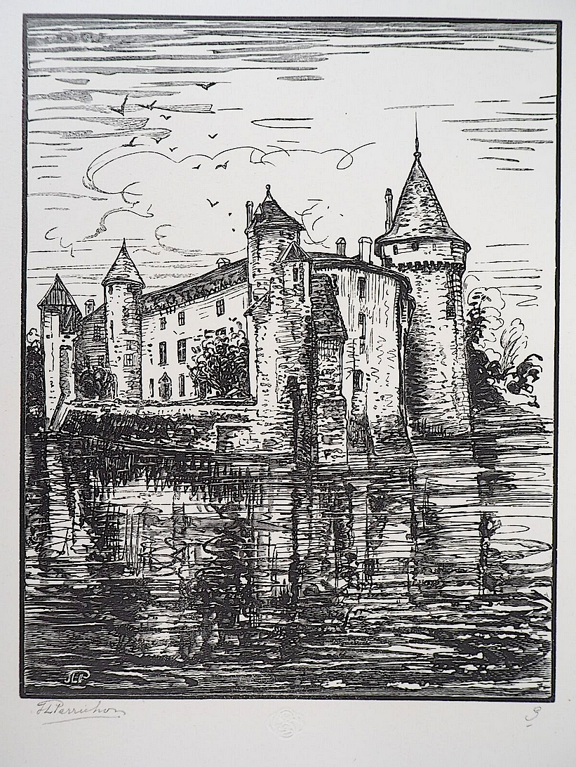 Château de La Brède (labelled as Montespieu/Montesquieu), design & woodcut by Perrichon [signed]. Stamped SGBO. Dim.: 32,5 x 25,5 cm.